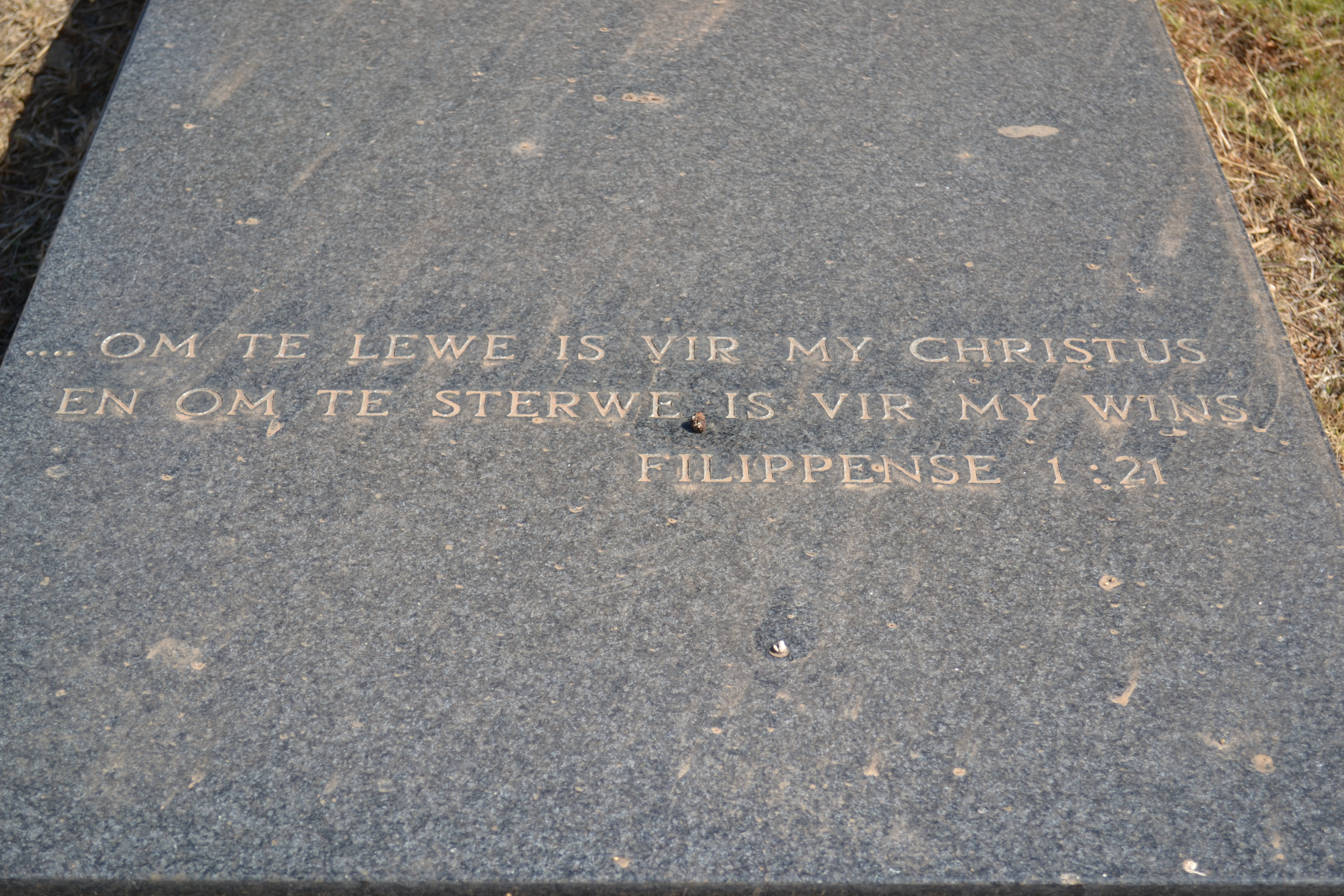 Andries Petrus Treurnicht Leader of the Conservative Party Church Street Cemetery in Pretoria This media shows a South African Protected Site with SAHRA file reference 000000.